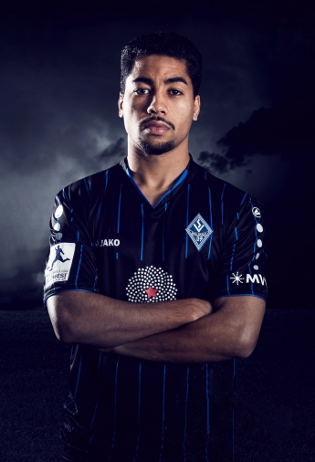 Saife Alami - SV Waldhoff Mannheim 2014/2015